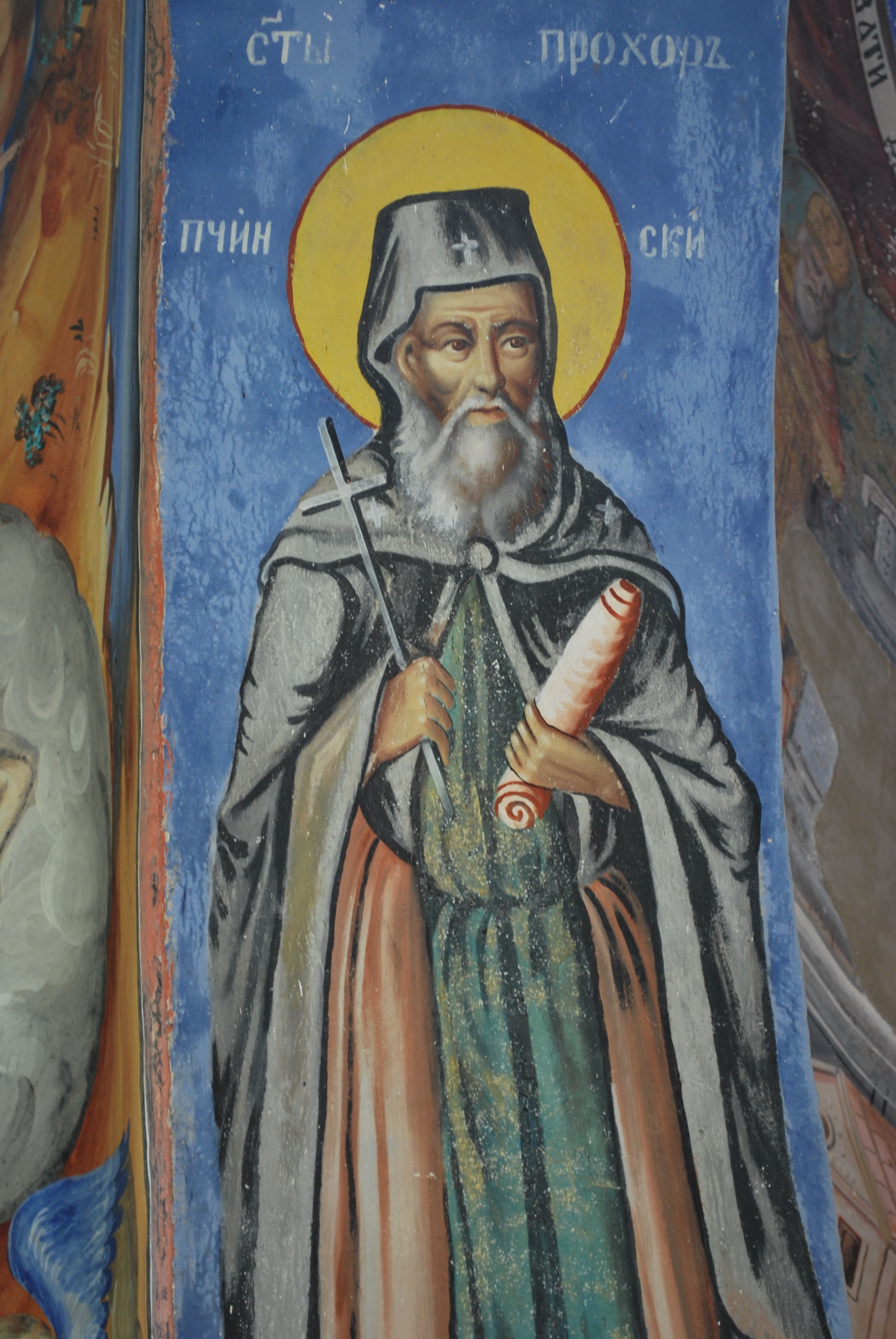 Frescoes in St. Joachim of Osogovo Church, Osogovo Monastery, Macedonia